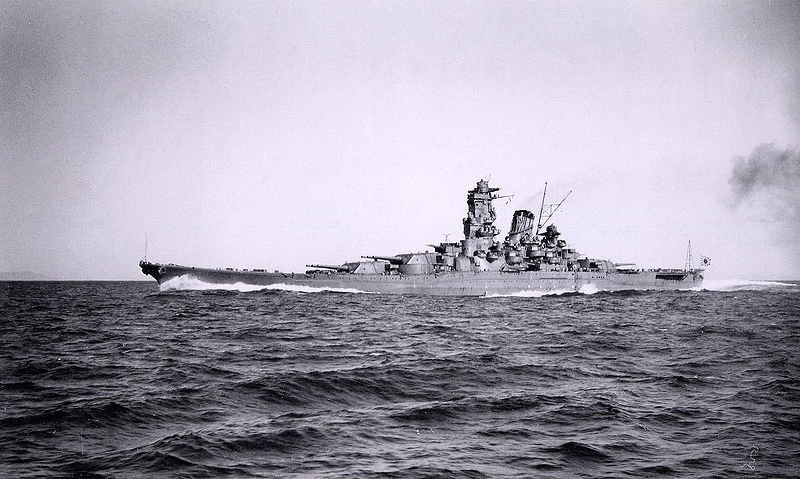 HIJMS Yamato running full-power trials in Sukumo Bay, 1941